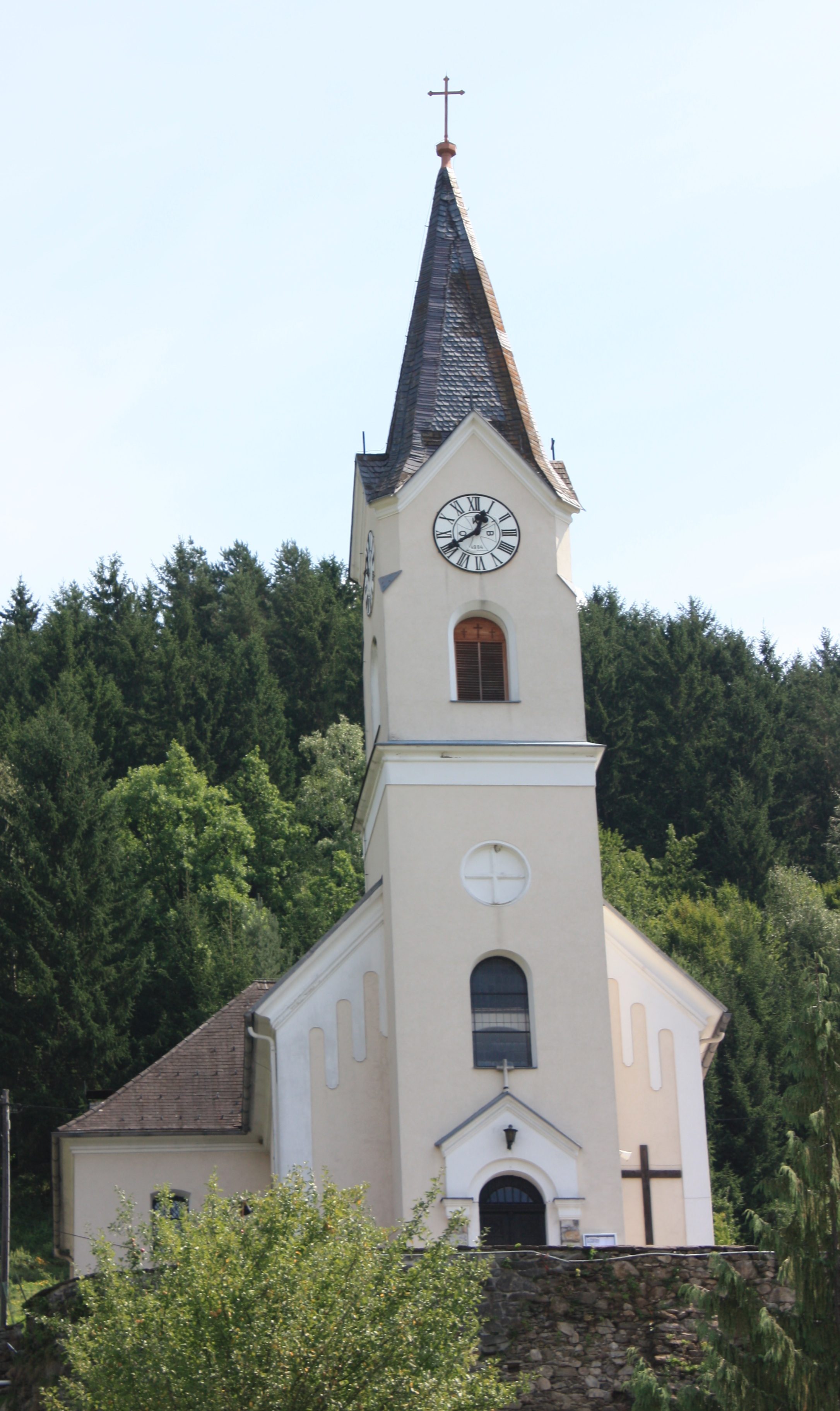 Parish church Locality: Ettendorf Community:Lavamünd